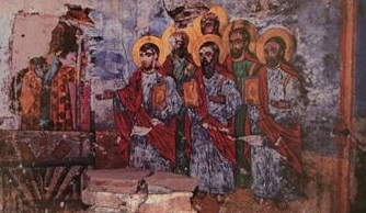 Saint Basil Garnchishte Church